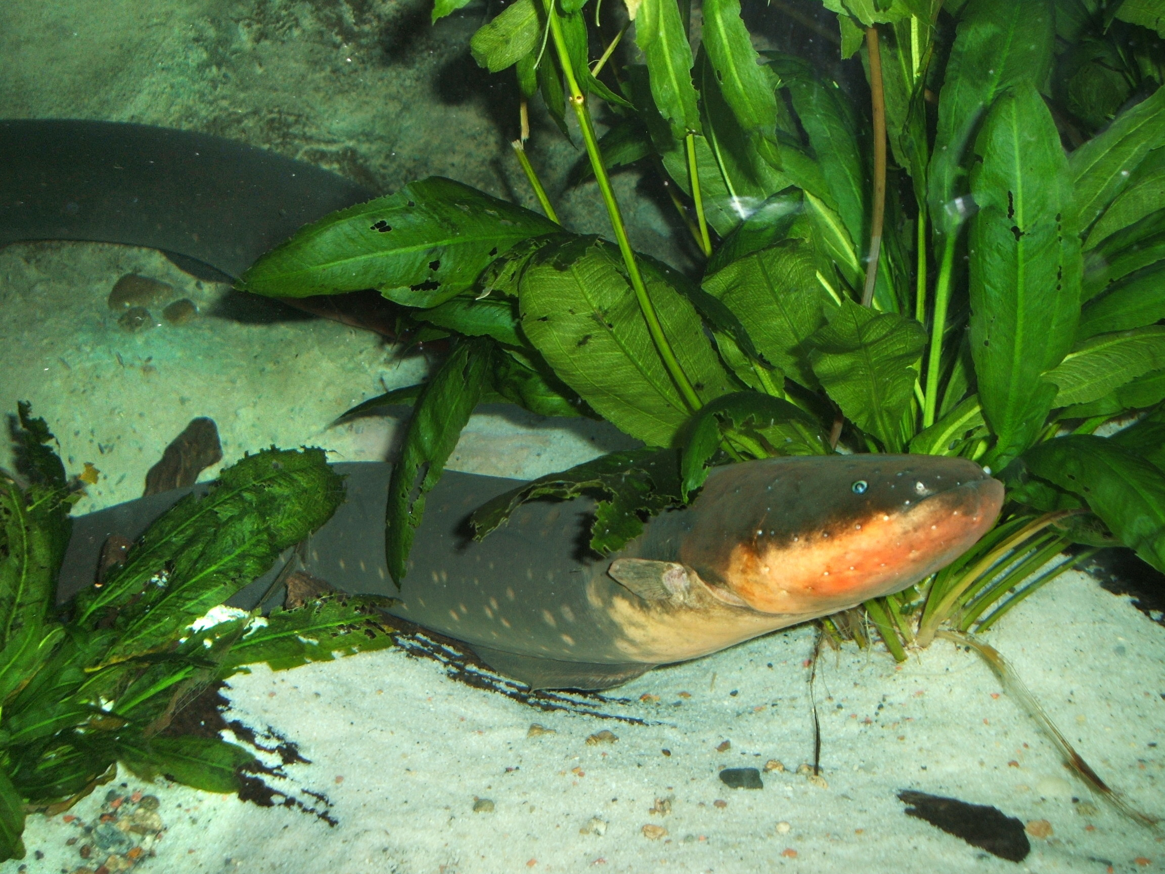 Electric eel (Electrophorus electricus). Taken at the New England Aquarium (Boston, MA, December 2006. Copyright © 2006 Steven G. Johnson and donated to Wikipedia under GFDL and CC-by-SA.